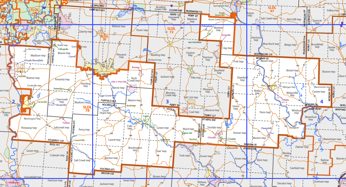 Census Map of Ohio House of Representatives, 78th District